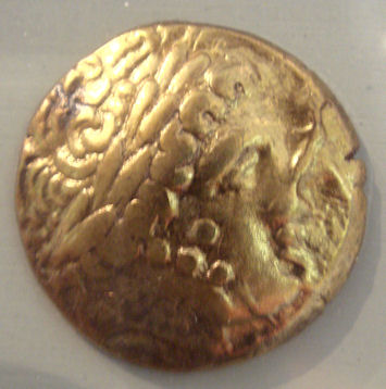 Ambarri_gold_coin_5_to_1st_century_BCE